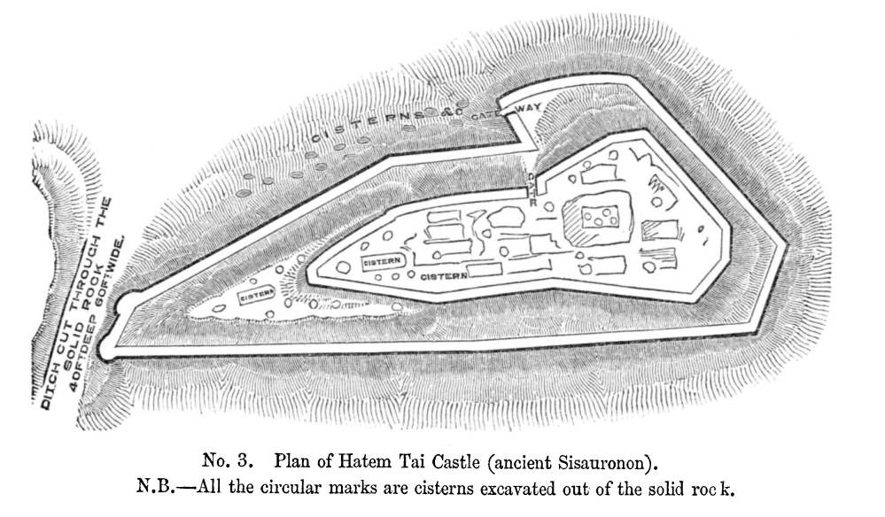 Sketch of the Hatem Tai Castle, misidentified by Taylor with ancient Sisauranon. Modern scholars identify it with Rhabdion instead.